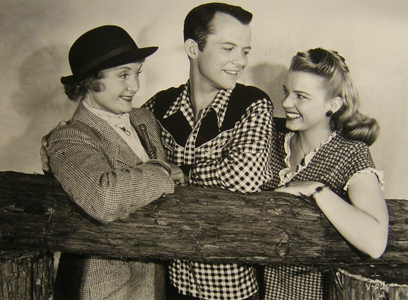 L. to R. : Billie Burke, Lon McCallister, and Lois Butler in The Boy from Indiana (1950) - publicity still (original image cropped : see source)